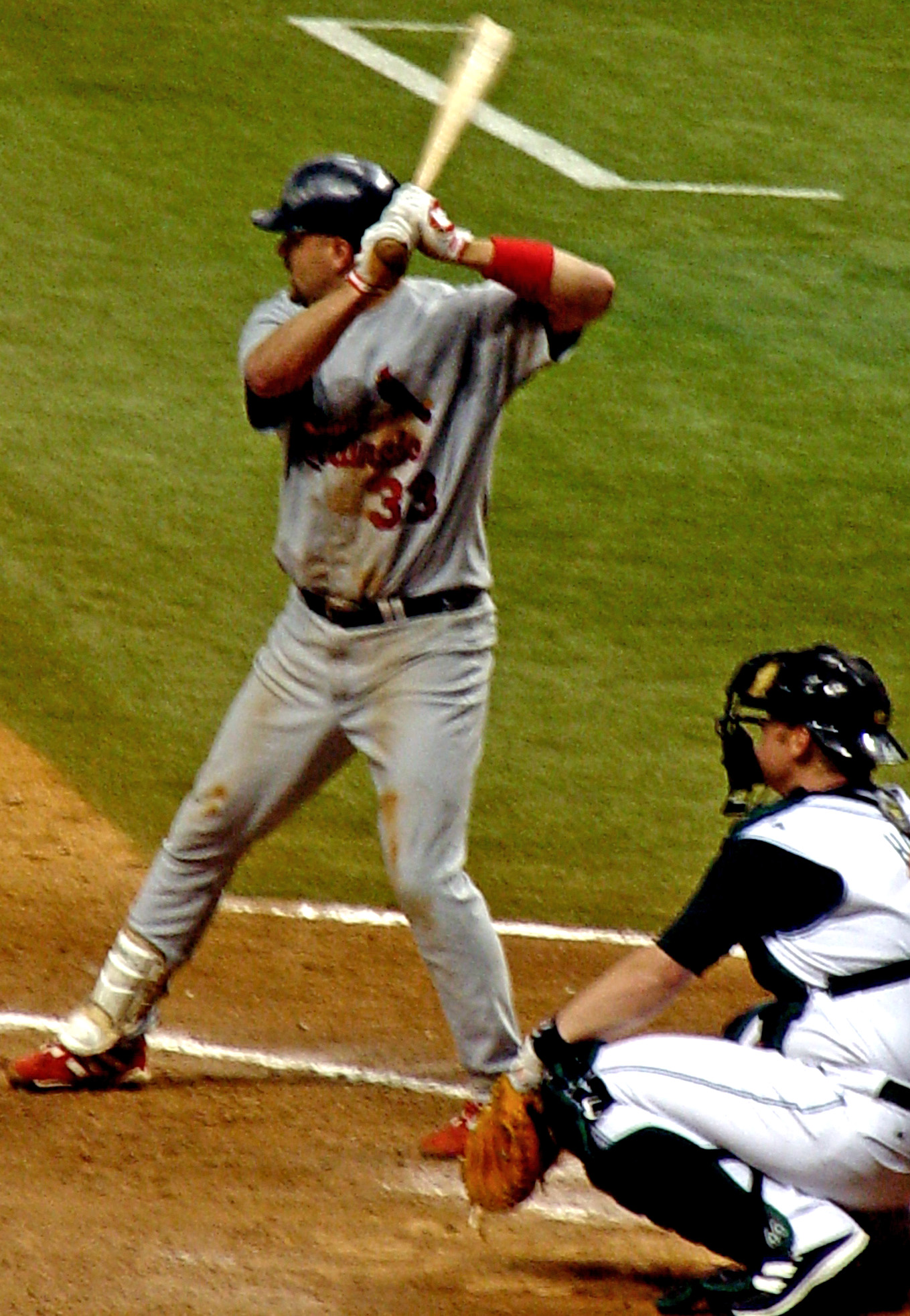 Larry Walker at bat, June 17, 2005. Photo by Googie Man. 18:14, 18 June 2005 . . Googie man . . 1359×1965 (738,762 bytes)